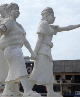 In December 1949, at the prison of Grand Bassam, 500* Ivorian women protested the incarceration of their husbands and brothers, militants of the Rassemblement Démocratique Africain (RDA), a federation of anticolonial African political parties. On the 22nd of December, organised in small groups so as to elude the watchful colonial administration, the women left Abidjan and set off on foot for Grand Bassam. On the 24th of December, as they were making their way towards the prison, they were stopped and beaten by French soldiers. Forty protestors were injured and four were prosecuted without any of their loved ones being released. (UNESCO's website)*later found to be around 2000 (source: Diabaté, Henriette (1975). La marche des femmes sur Grand-Bassam). The monument was erected in Place de la Paix in Grand-Bassam in 1999. For date of erection of the monument, see Ecriture en dessous de la statue.